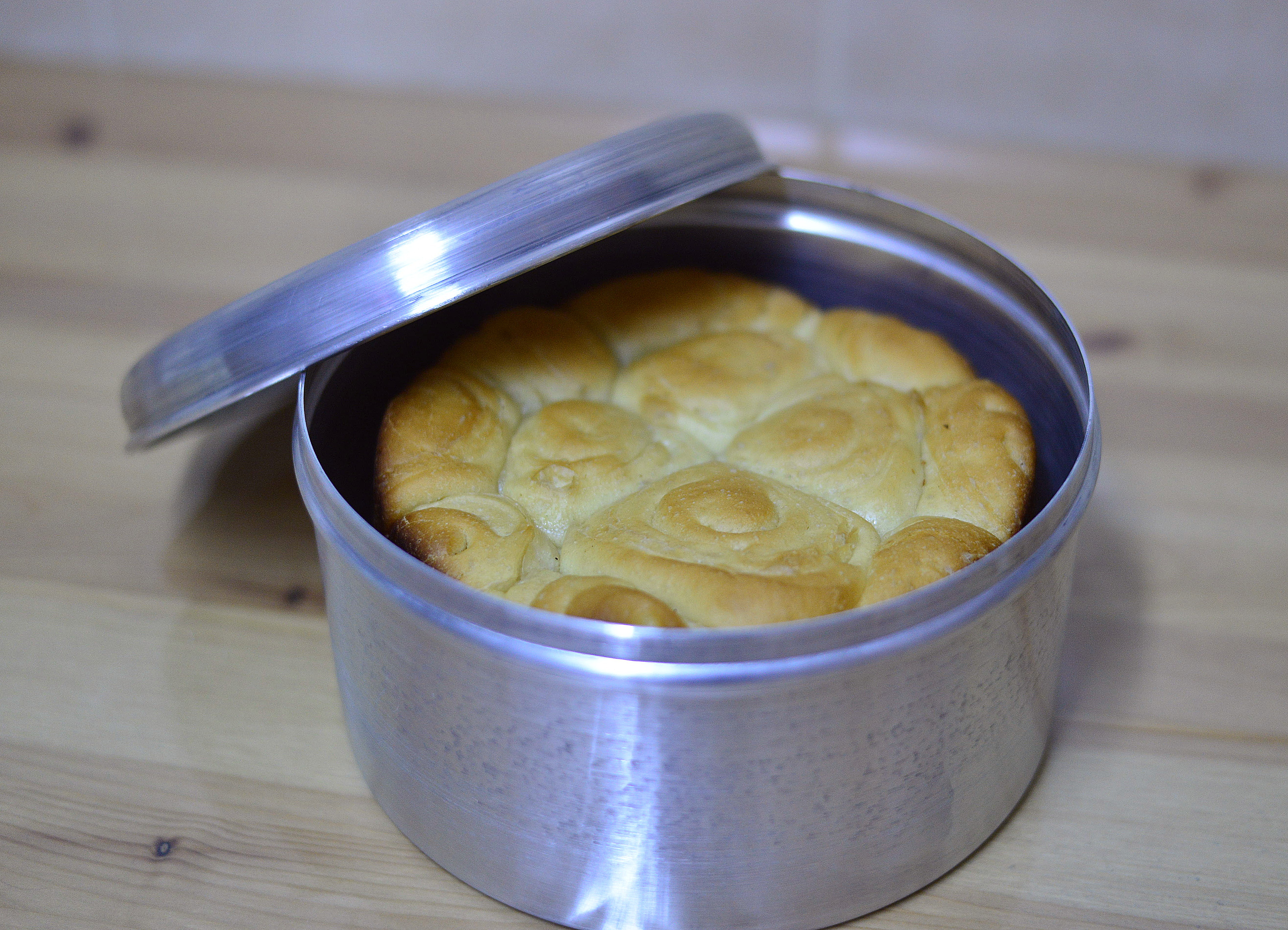 Traditional Sabbath-day bread, known as "Kubaneh"